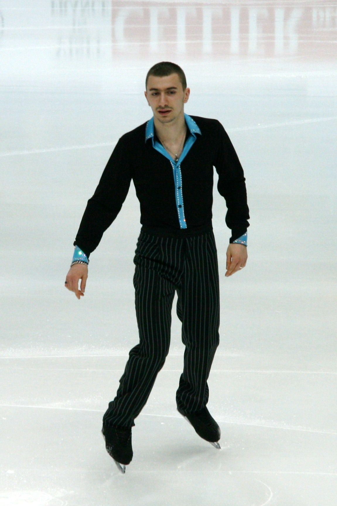 Tigran Vardanjan at the 2011 World Figure Skating Championships.